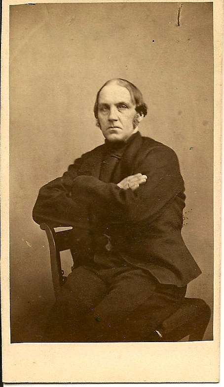 Swedish politician from late nineteenth century